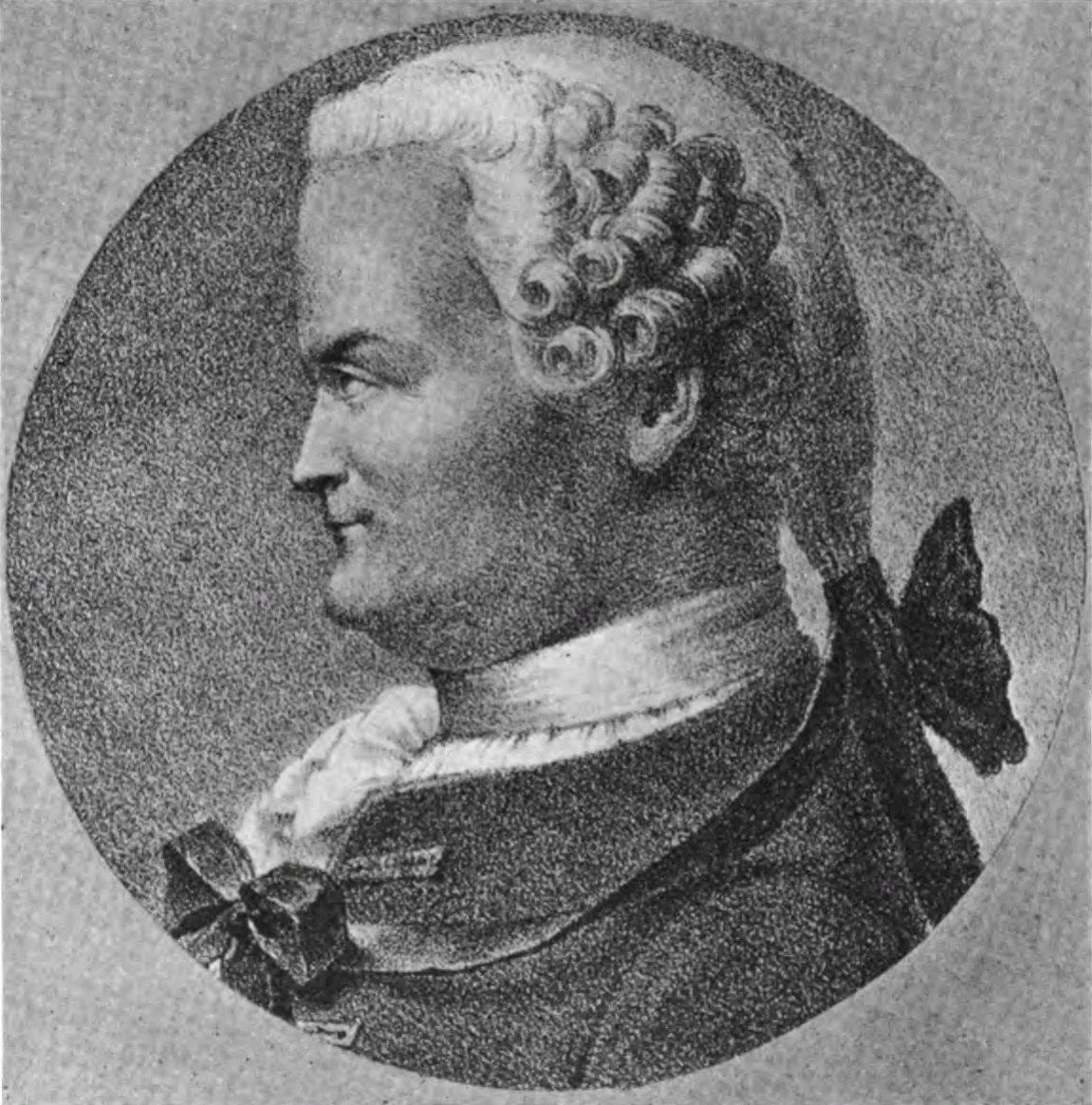 Johann Heinrich Lambert (1728-1777), Swiss mathematician, physicist and philosopher